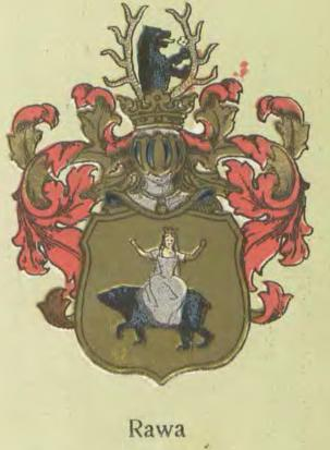 Rawicz coat of arms by Zbigniew Leszczyc published in "Herby szlachty polskiej"